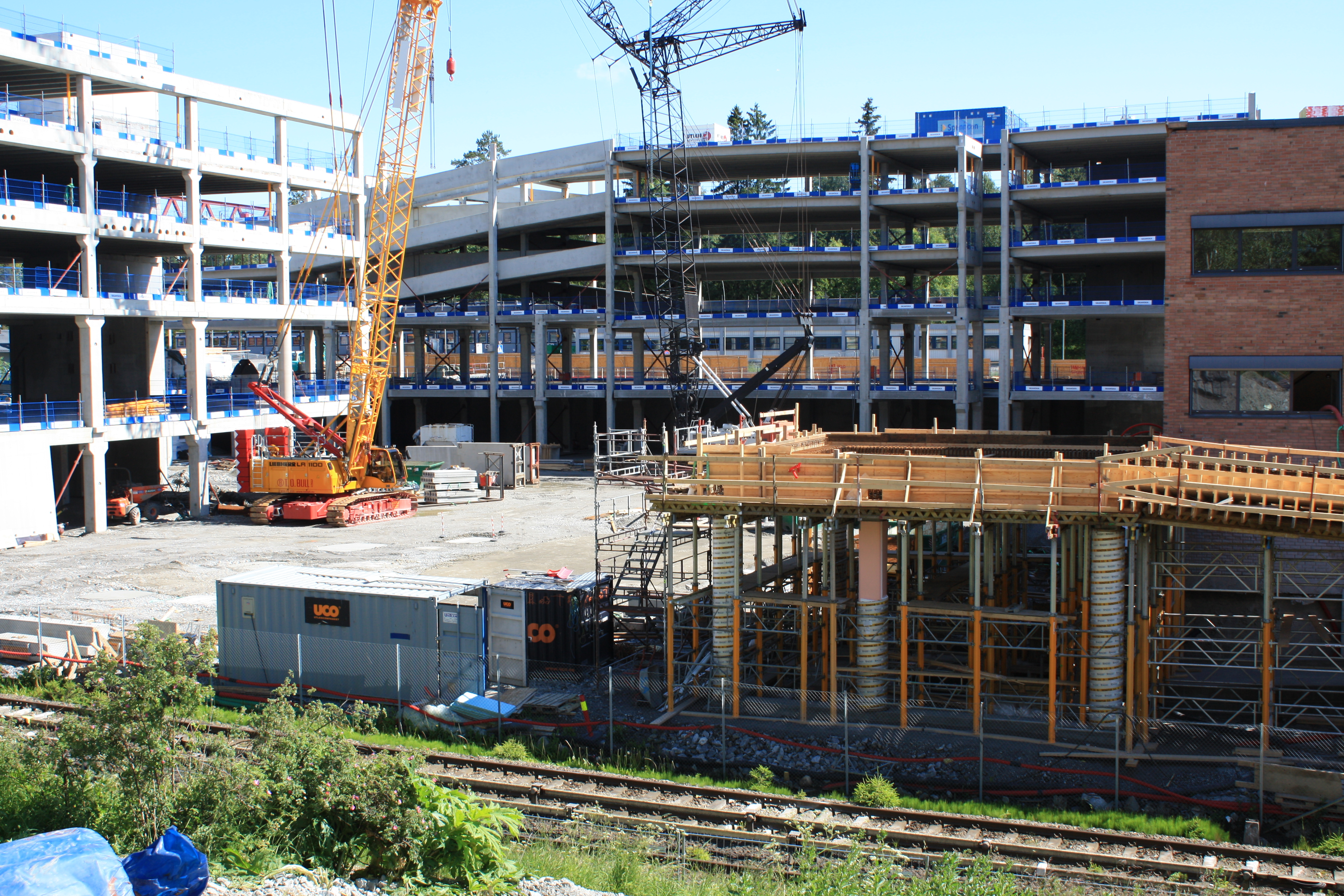 Lambertsetersenteret, Oslo, Norway